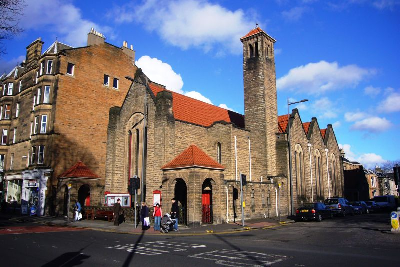 Morningside United Church, James McLachlan, 1929